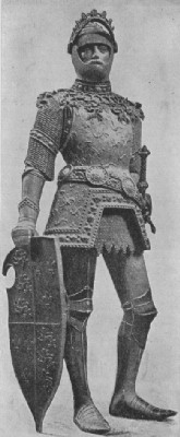 King Arthur from The Book of Knowledge, The Grolier Society, 1911. From Image:Arthur3487.jpg.